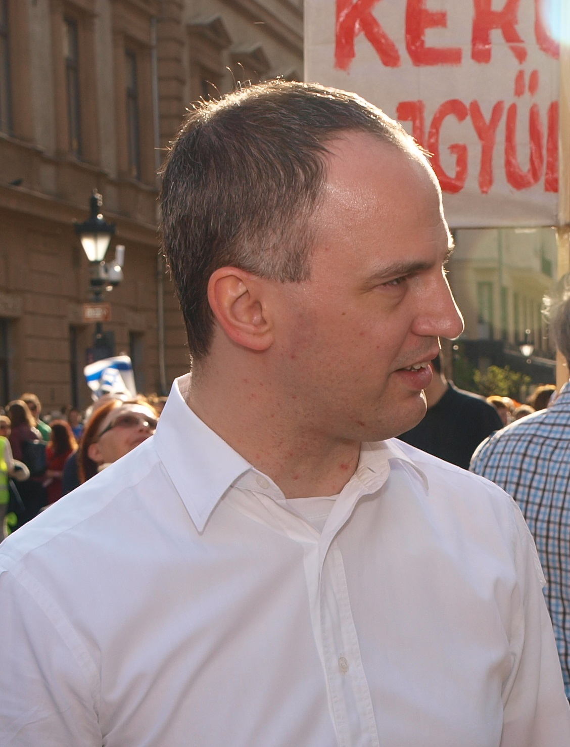 Szigetvári Viktor, az Együtt elnöke a 2016-os Élet Menetén